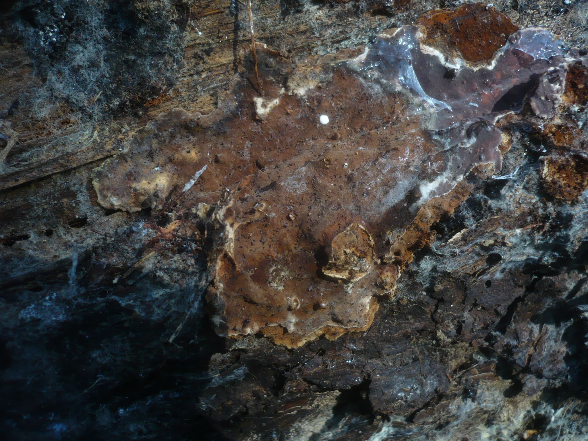 Fruit body of the fungus Amylostereum areolatum (Chaillet ex Fr.) Boidin. Photographed near the Kamienna river, Szklarska Poreba, Poland.